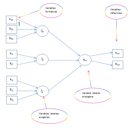 PLS approach : Causality network between three variable groups (after M. Tenenhaus)